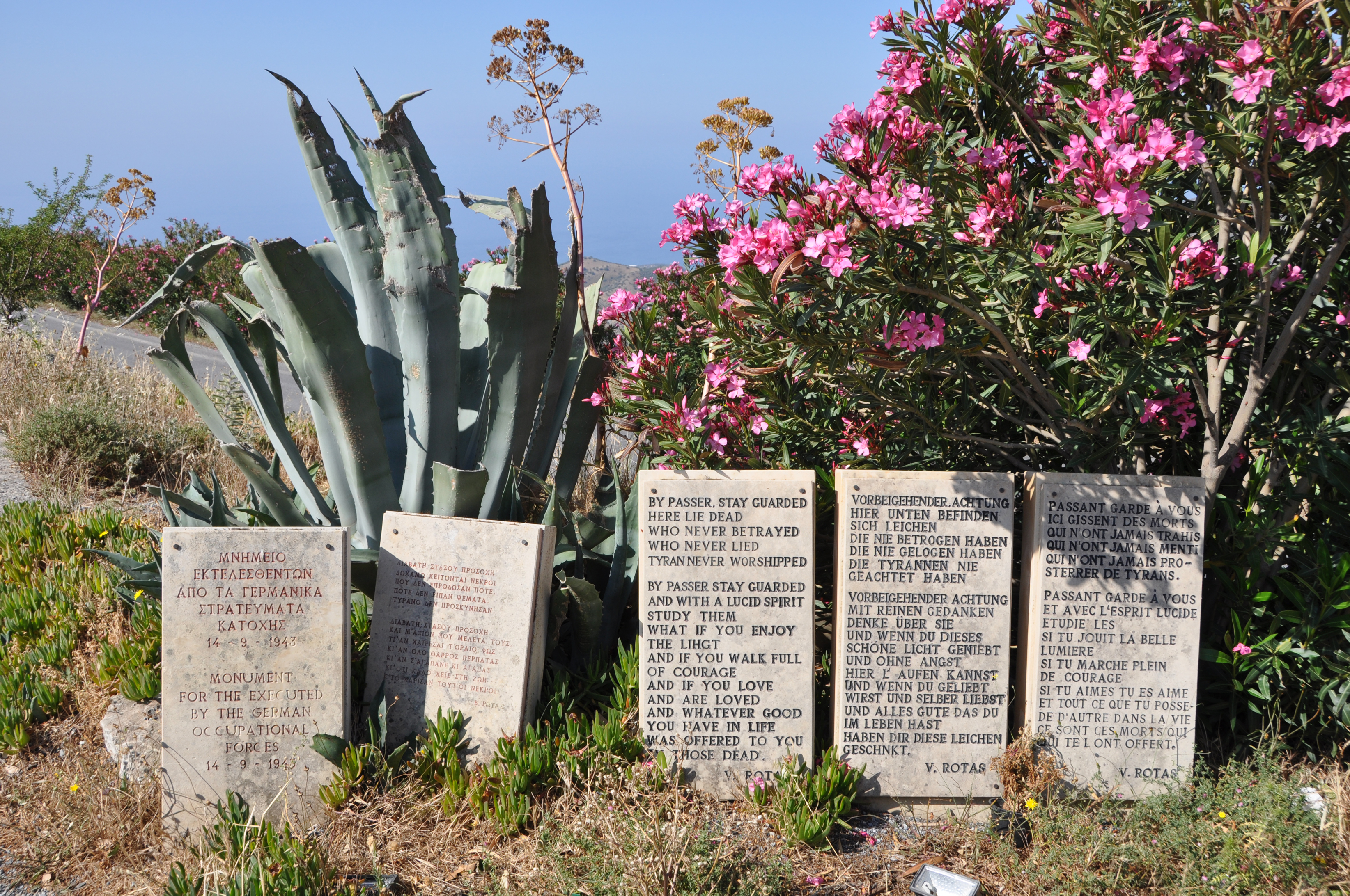 Amiras (Crete, Greece): Memorial commemorating the destruction of several villages in southern Crete and the execution of more than 350 people by the German occupying forces in 1943 - detail